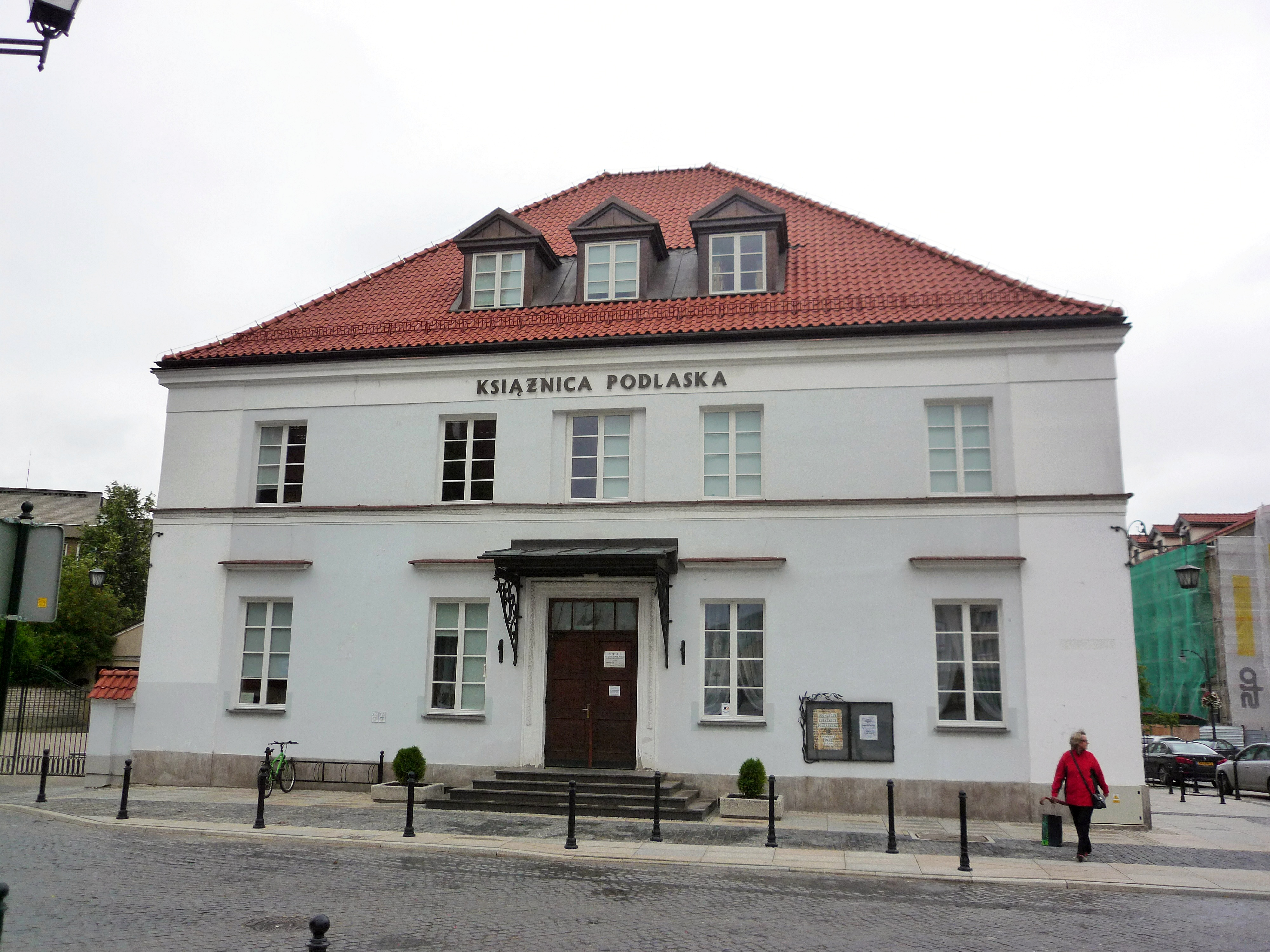 Białystok - library "Książnica Podlaska", former masonic lodge